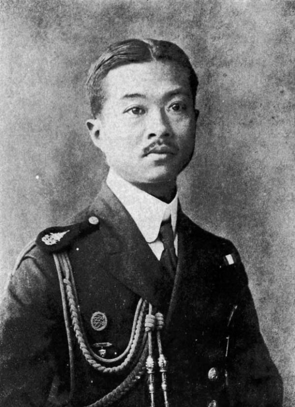 Prince Paribatra Sukhumbhand, Prince of Nakhon Sawan. Son of King Chulalongkorn of Siam.